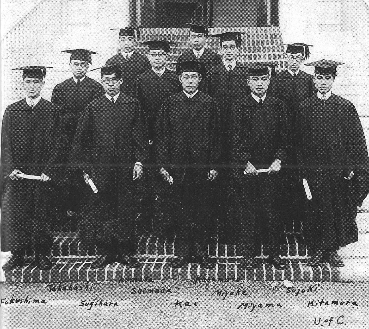 Japanese UCLA graduates in 1925 include Kane-zo Kai, Japanese-English translator.